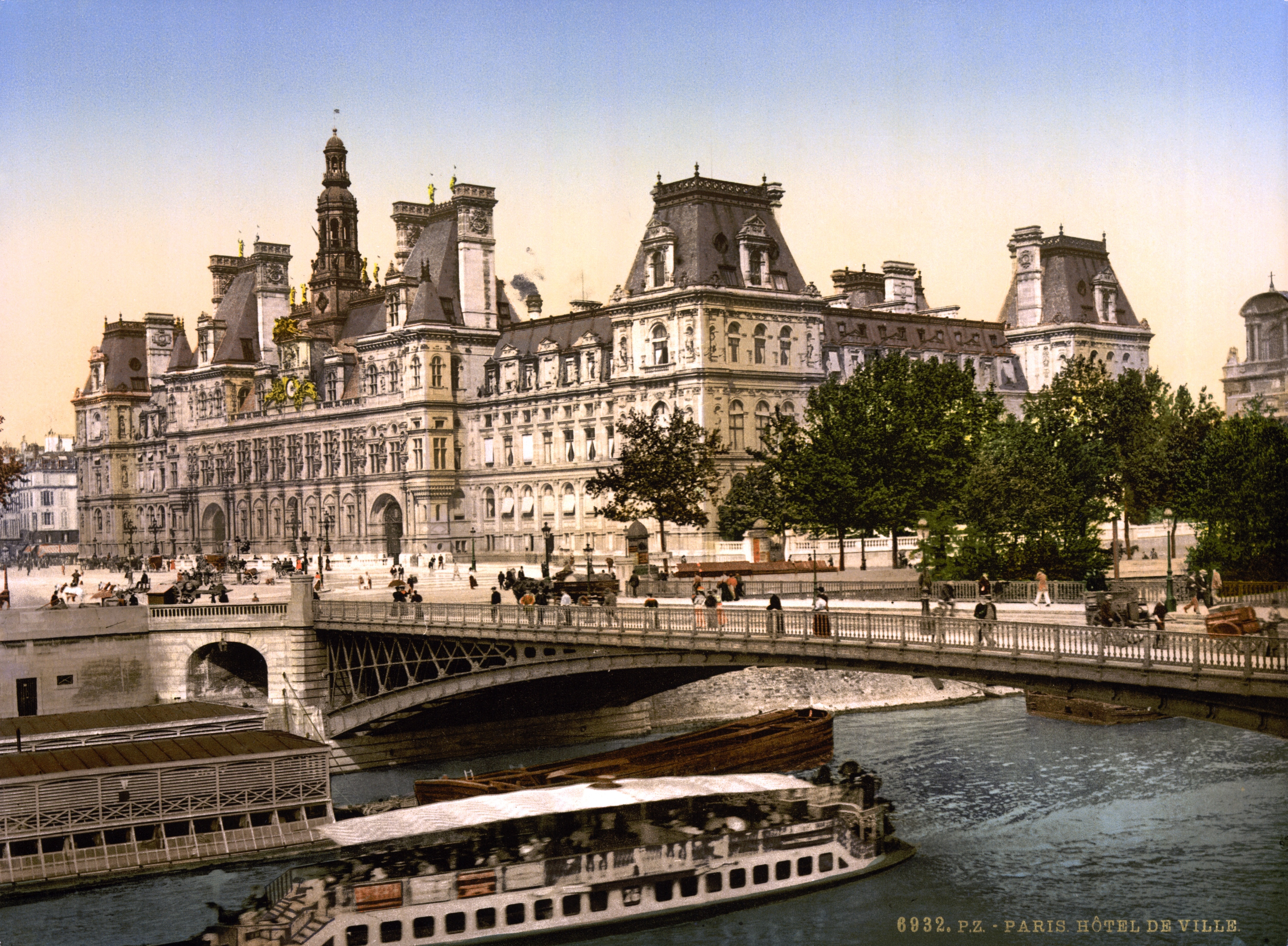 Hotel de ville, Paris, France.